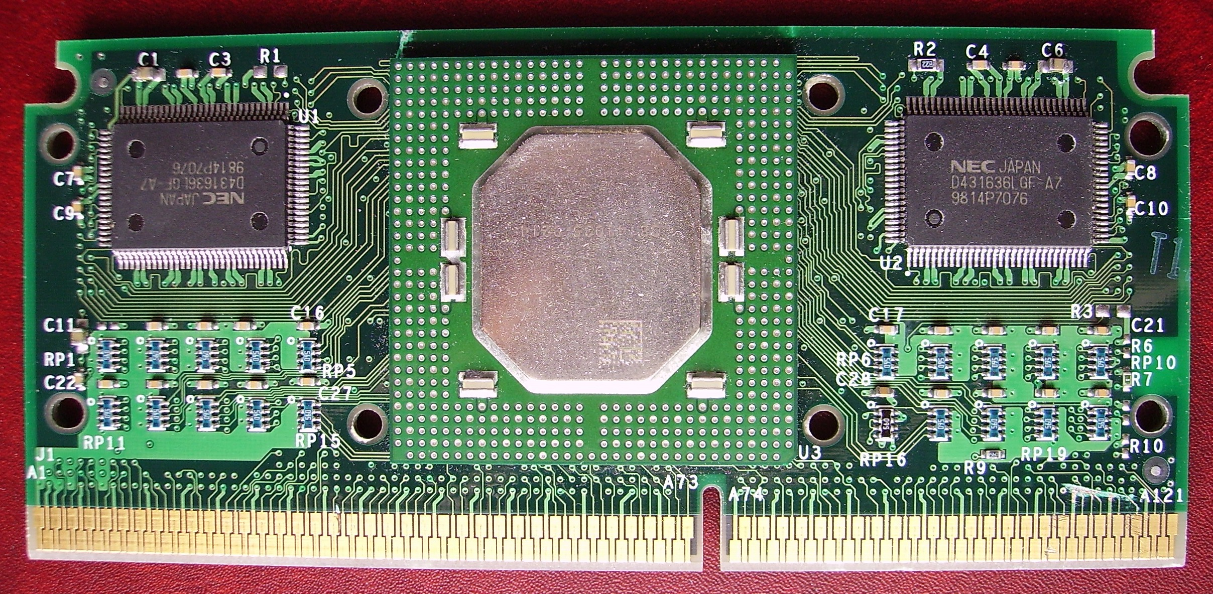 with MMX technology. Aluminium thermal plate removed. process: 0.35 µm CMOS. 7.5 million transistors. CPU clock rate=233 MHz (66x3.5).